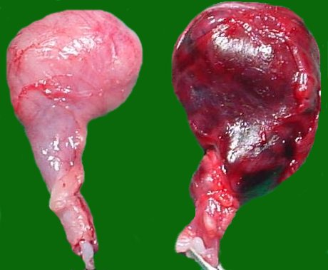 background modified from Image:Hodendrehung Post-OP.jpg